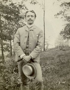 Photo of William Bliss Baker, taken ca.1880-1886.